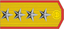 General of the Army (PRC)'s rank insignia. The rank is now abolished.